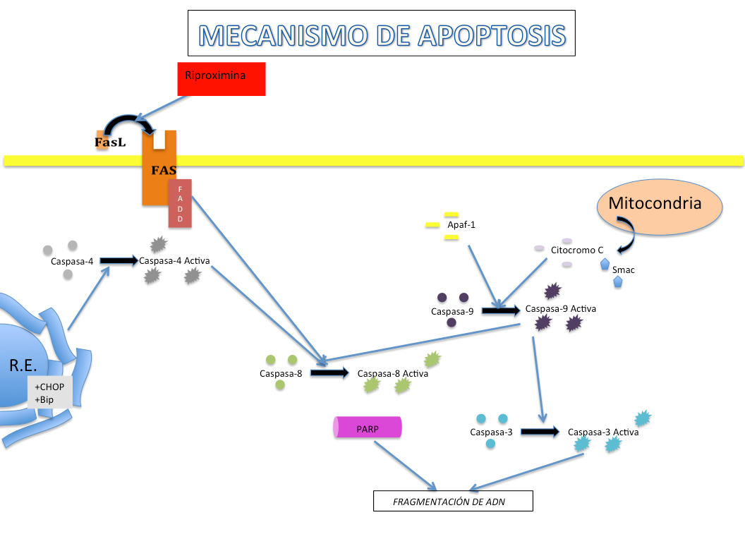 Mecanismo de apoptosis de la Riproximina